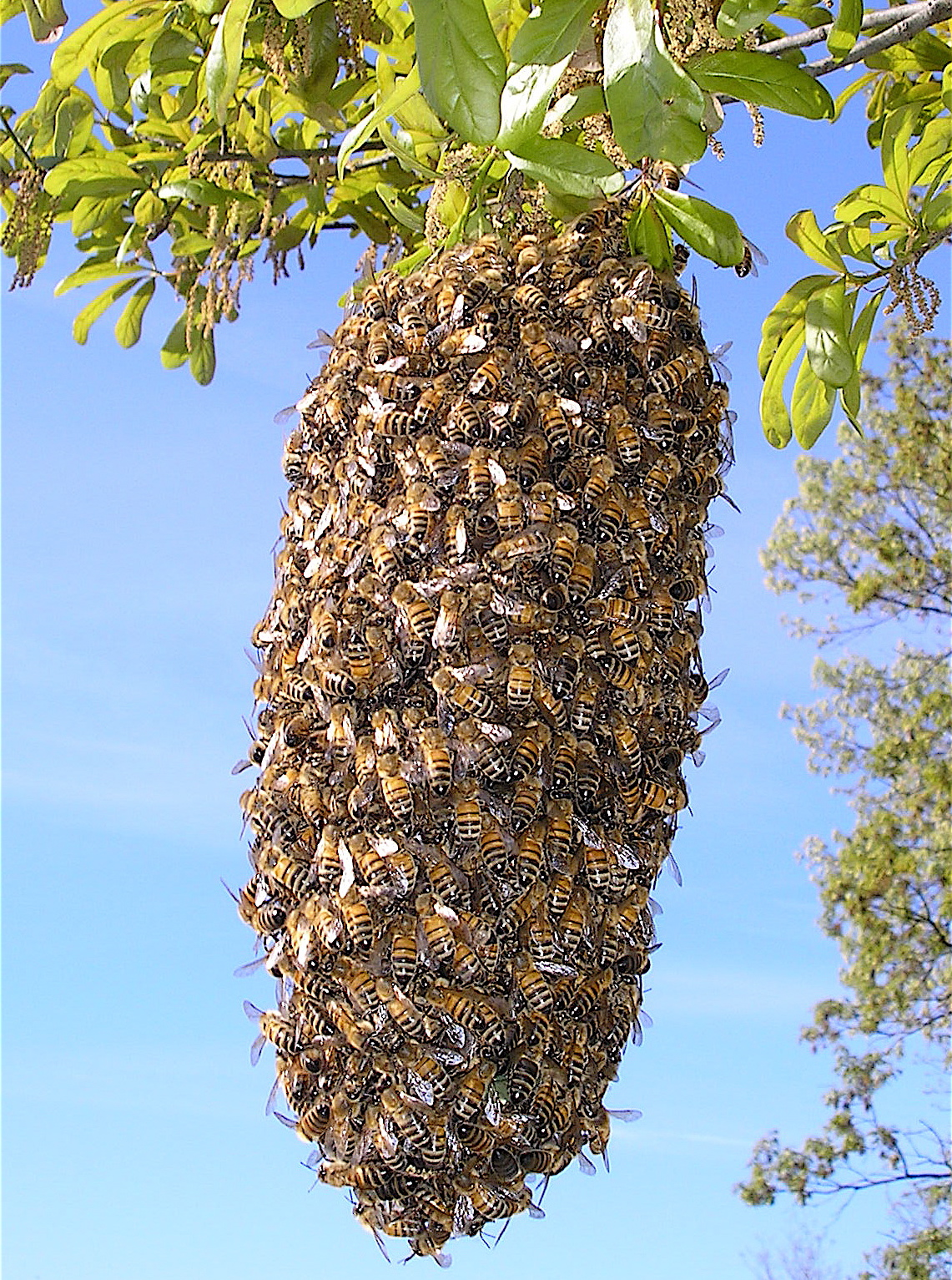 This is an image of a bee swarm. I made it in April of 2008